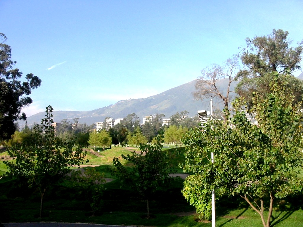 General view of Carolina Park, in Quito